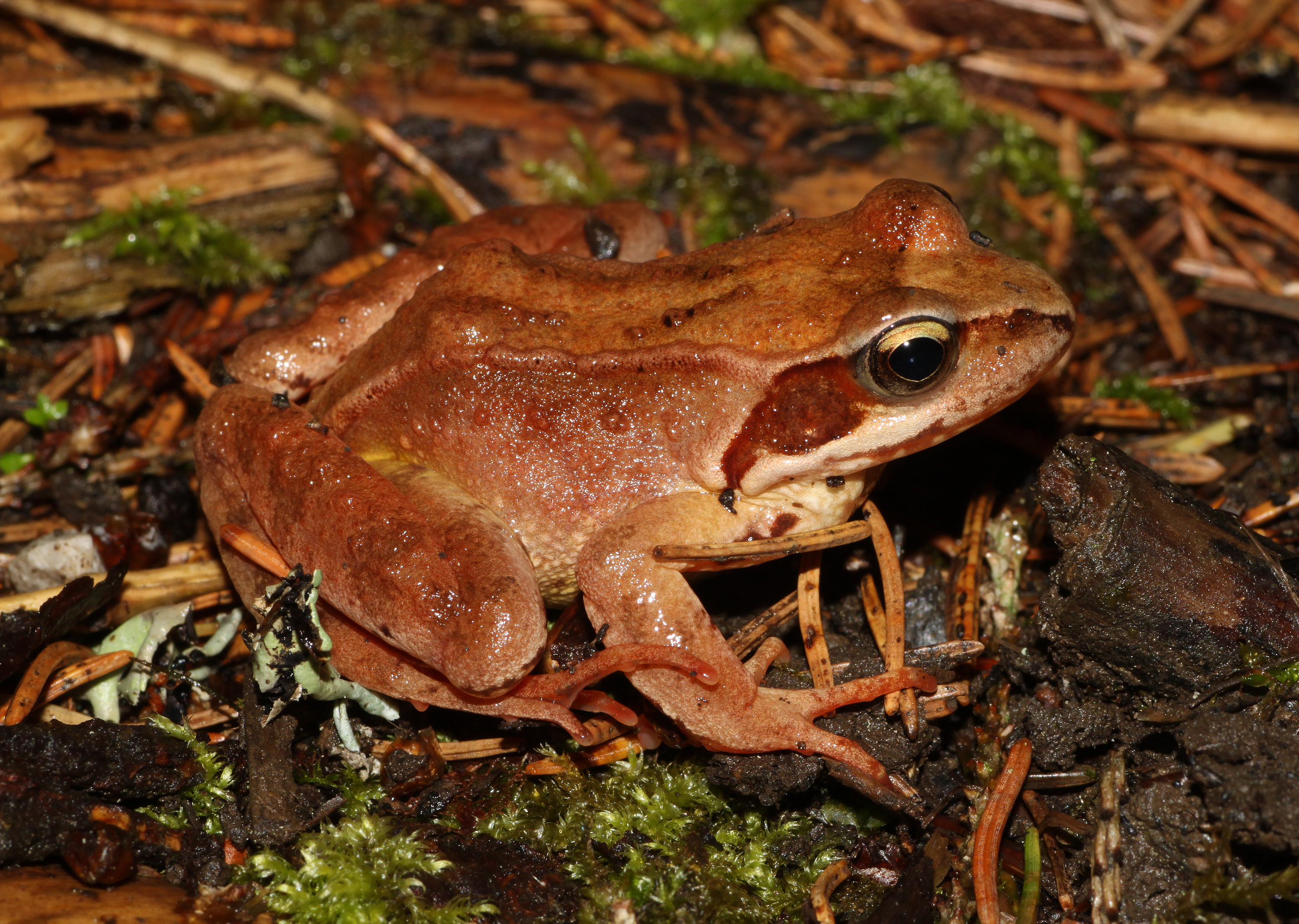 Agile Frog, Rana dalmatina, Family: Ranidae, Location: Slovenia, Bled (forest)